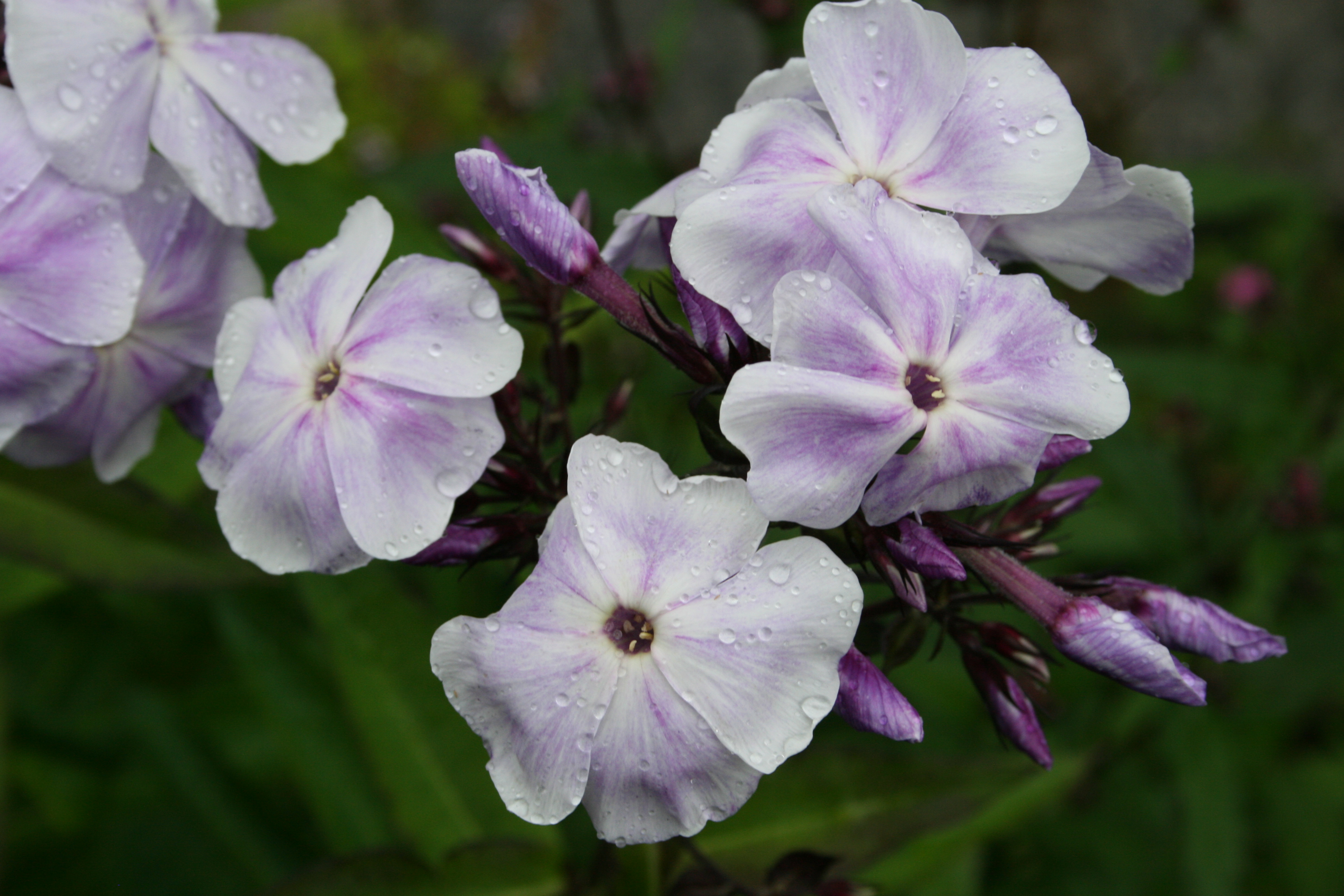 Phlox paniculata 'Prospero'